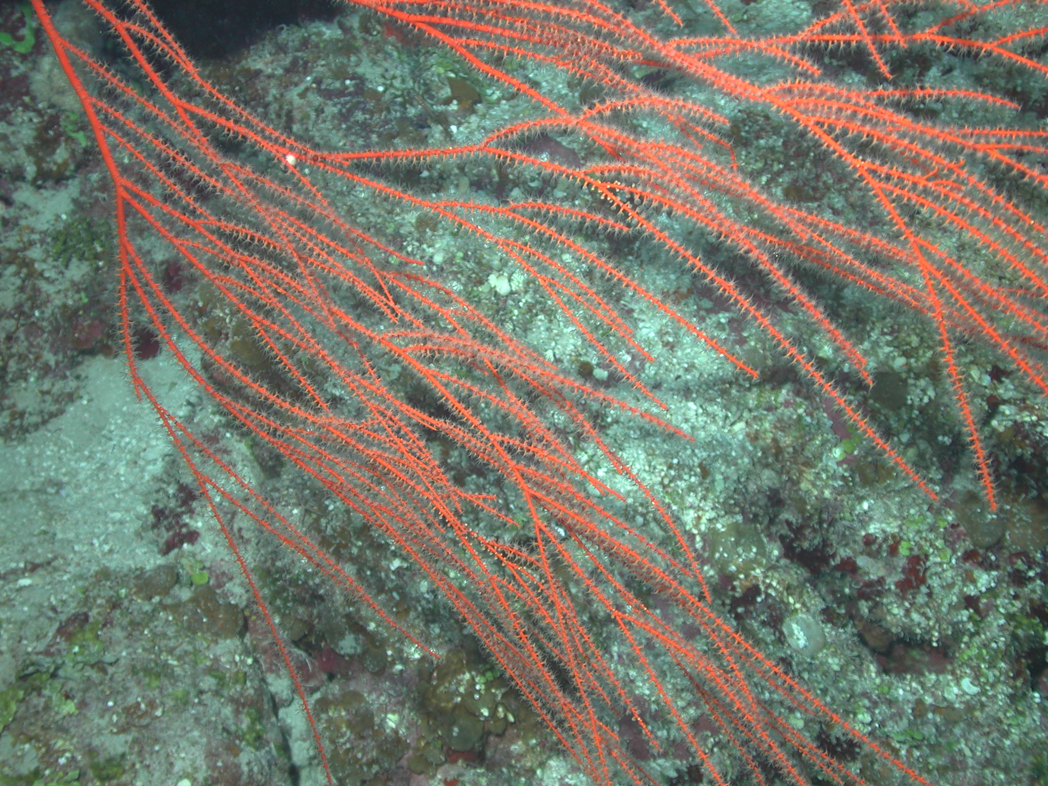 Several species of gorgonian octocorals occur on deep reefs. Ellisella schmitti (sinonym: Nicella schmitti),[1] shown here, lacks zooxanthellae, but feeds on particulates and small zooplankton that are abundant along walls.